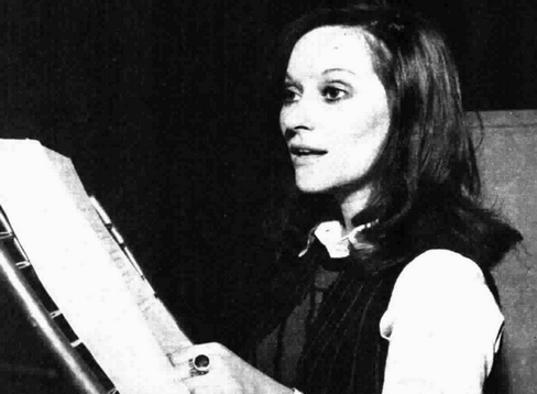 Italian actress Daniela Nobili